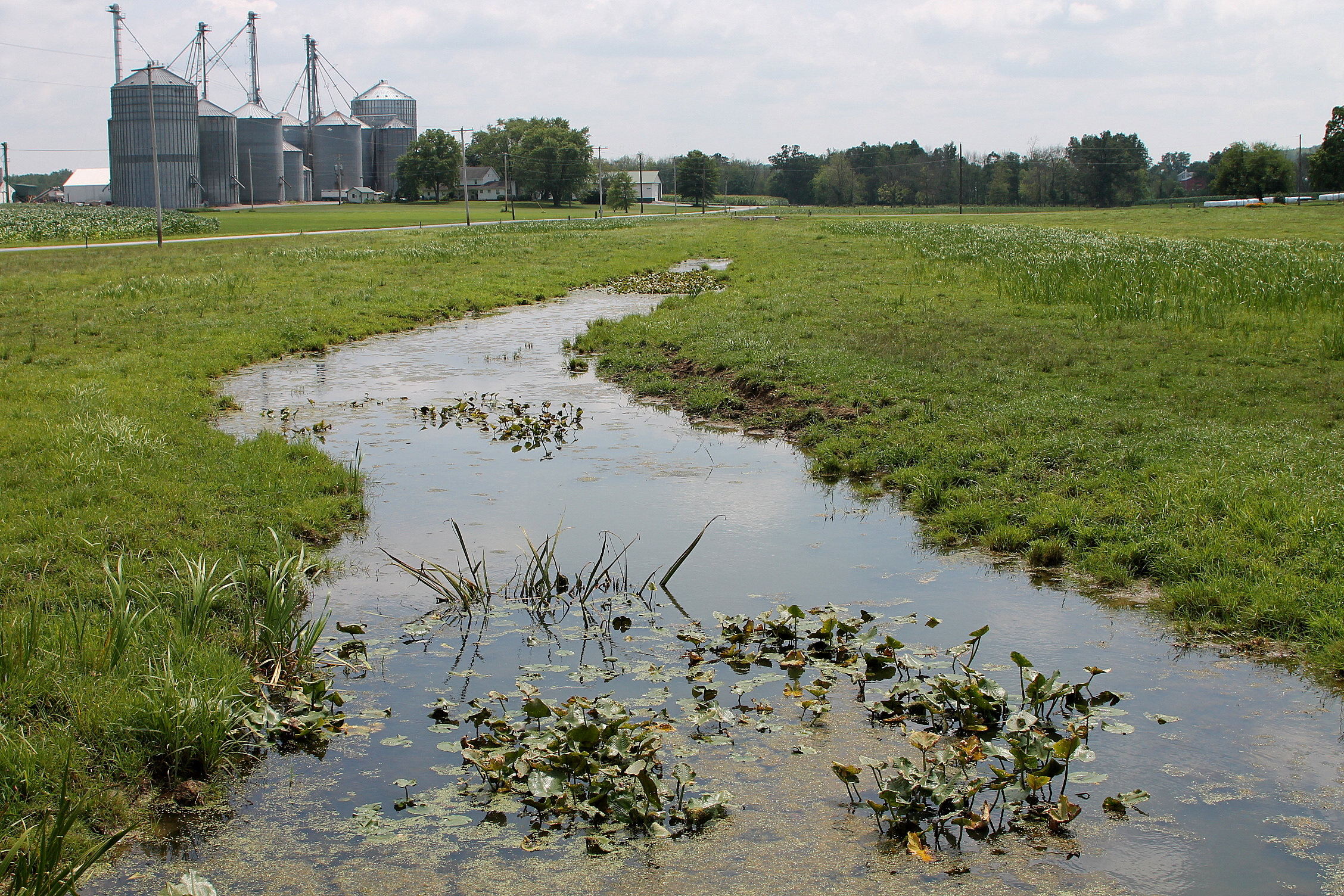 Beaver Run near looking downstream in its upper reaches near Turbotville, Pennsylvania